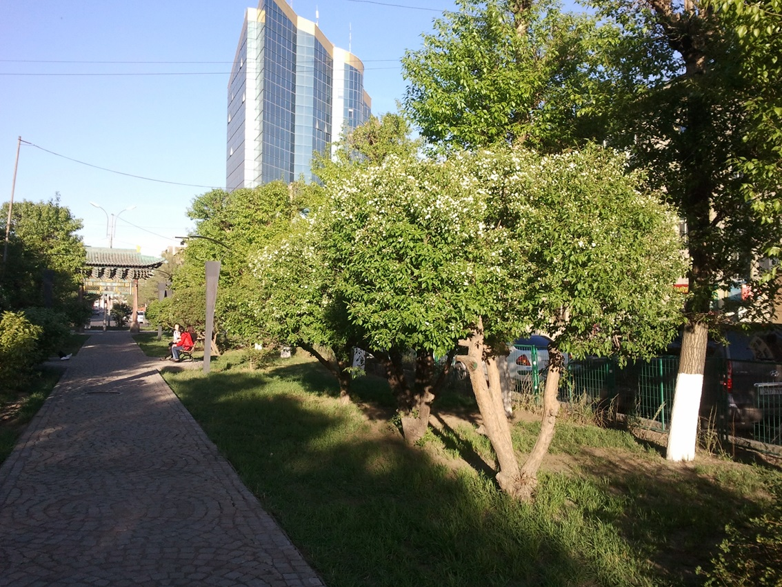 Spring foliage in Ulaanbaatar, Mongolia. 2013.